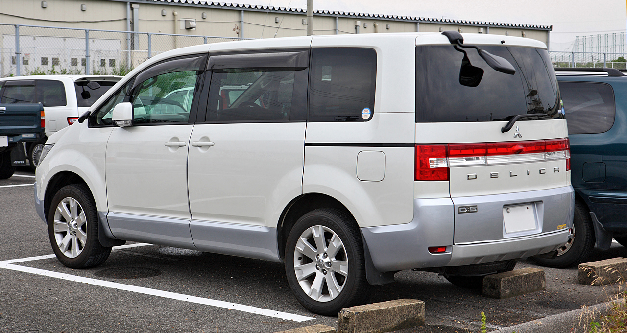 Mitsubishi Delica D:5